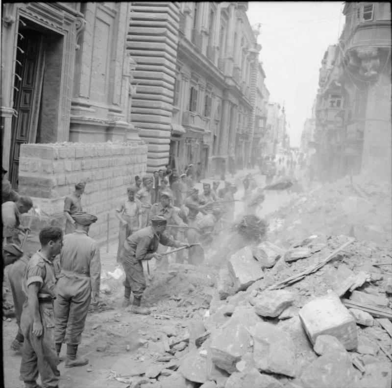 The British Army on Malta 1942 Soldiers stationed in Malta use picks and shovels to assist in clearing bomb damage on Kingsway in Valletta, 11 May 1942.